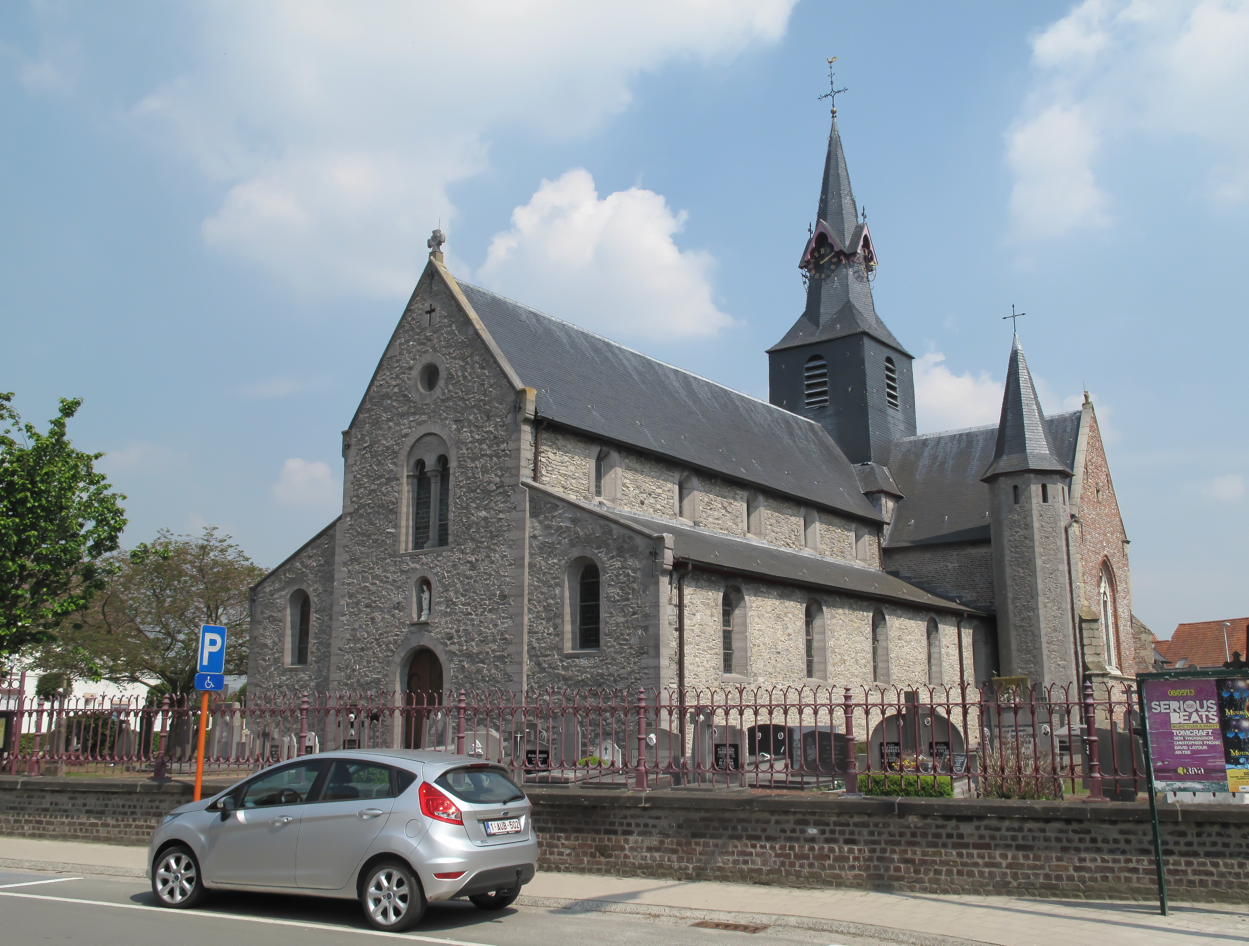 Welden, church: de Sint Martinuskerk